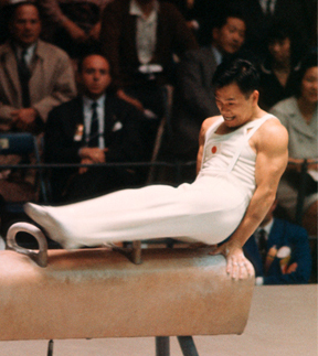 Takashi Ono at the 1964 Olympics